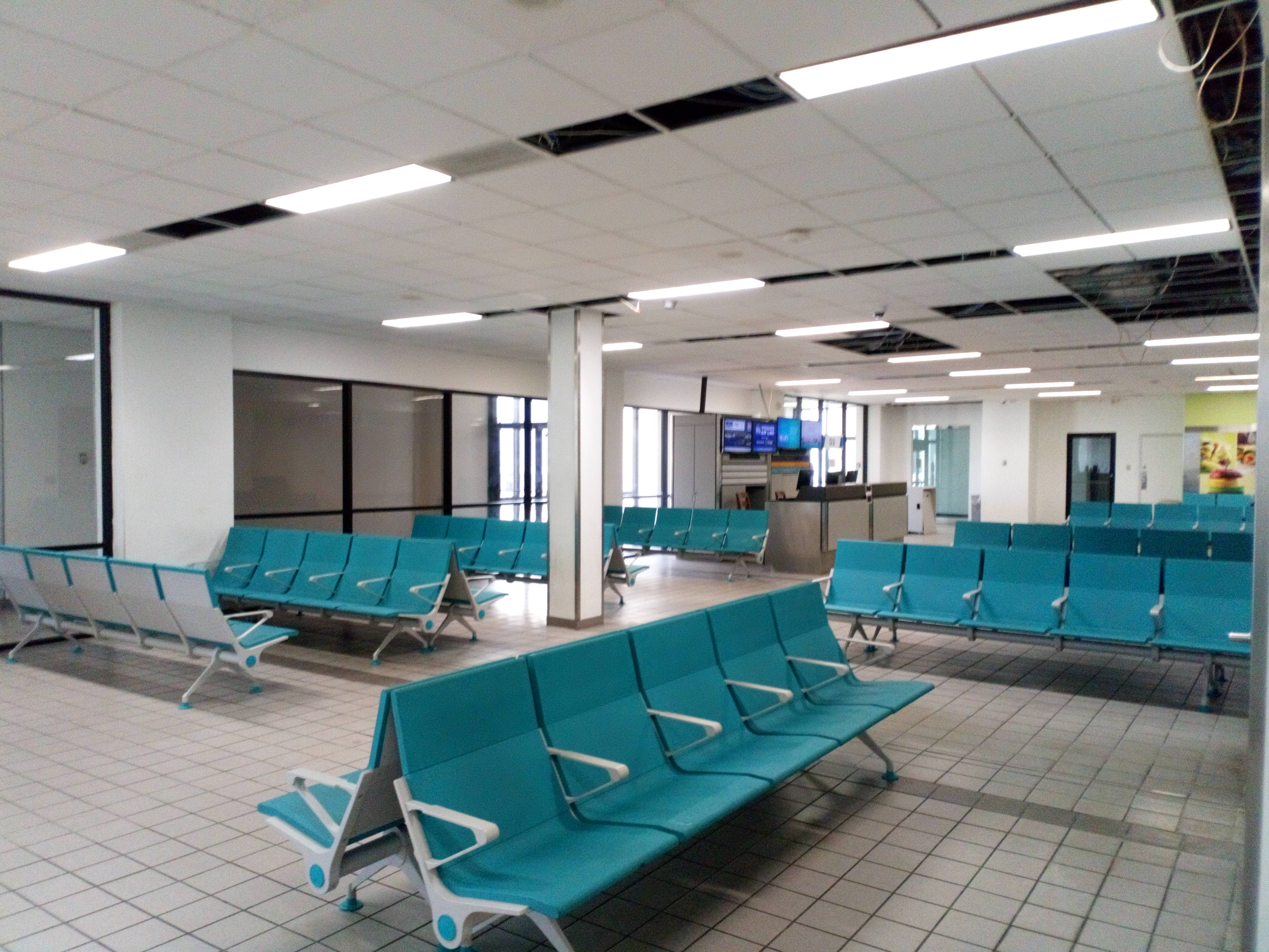 The waiting area for Gate D2